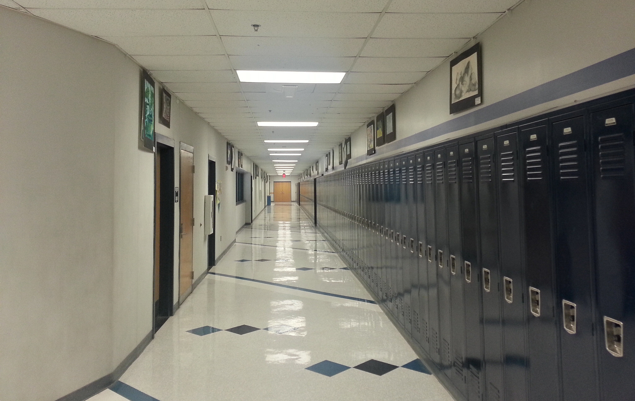 View of a tiled second floor hallway in the Jim Henson School of Arts, Media, and Communications at Northwestern High School in Hyattsville, Maryland, USA. The double doors at the end of the hallway lead to the stage area of the auditorium.